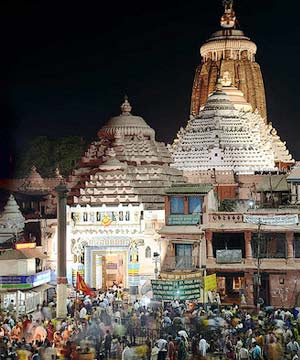 lord Jaganath temple , Puri, Odisha,India(CROWD VIEW)